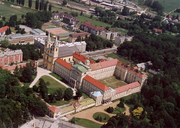 Abbey - Zirc - Hungary - Europe